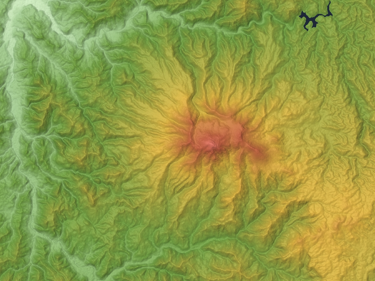 Mount Moriyoshi (Moriyoshi-zan) in Akita Prefecture, Honshu, Japan.